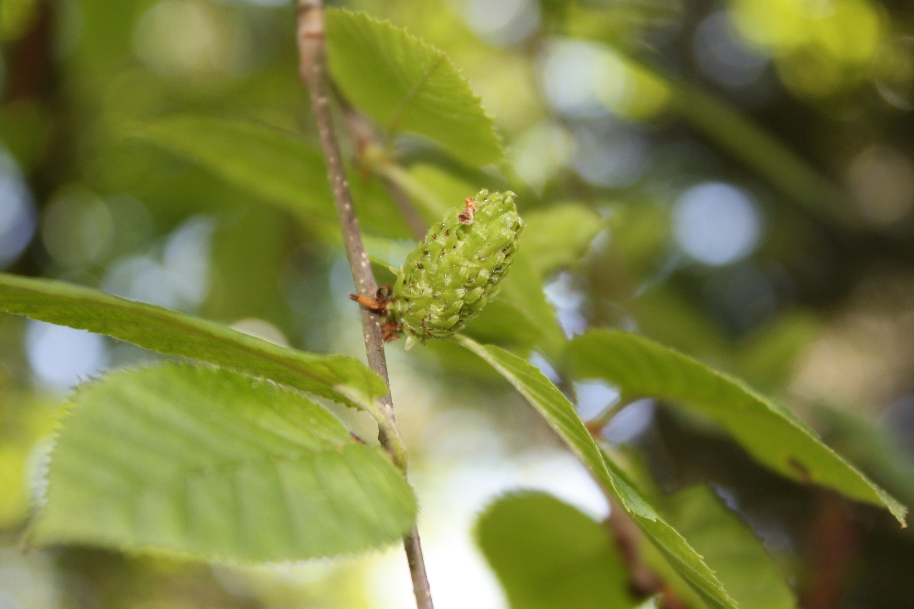 Yellow Birch (Betula alleghaniensis) fruiting in Viikki Arboretum in Helsinki, Finland